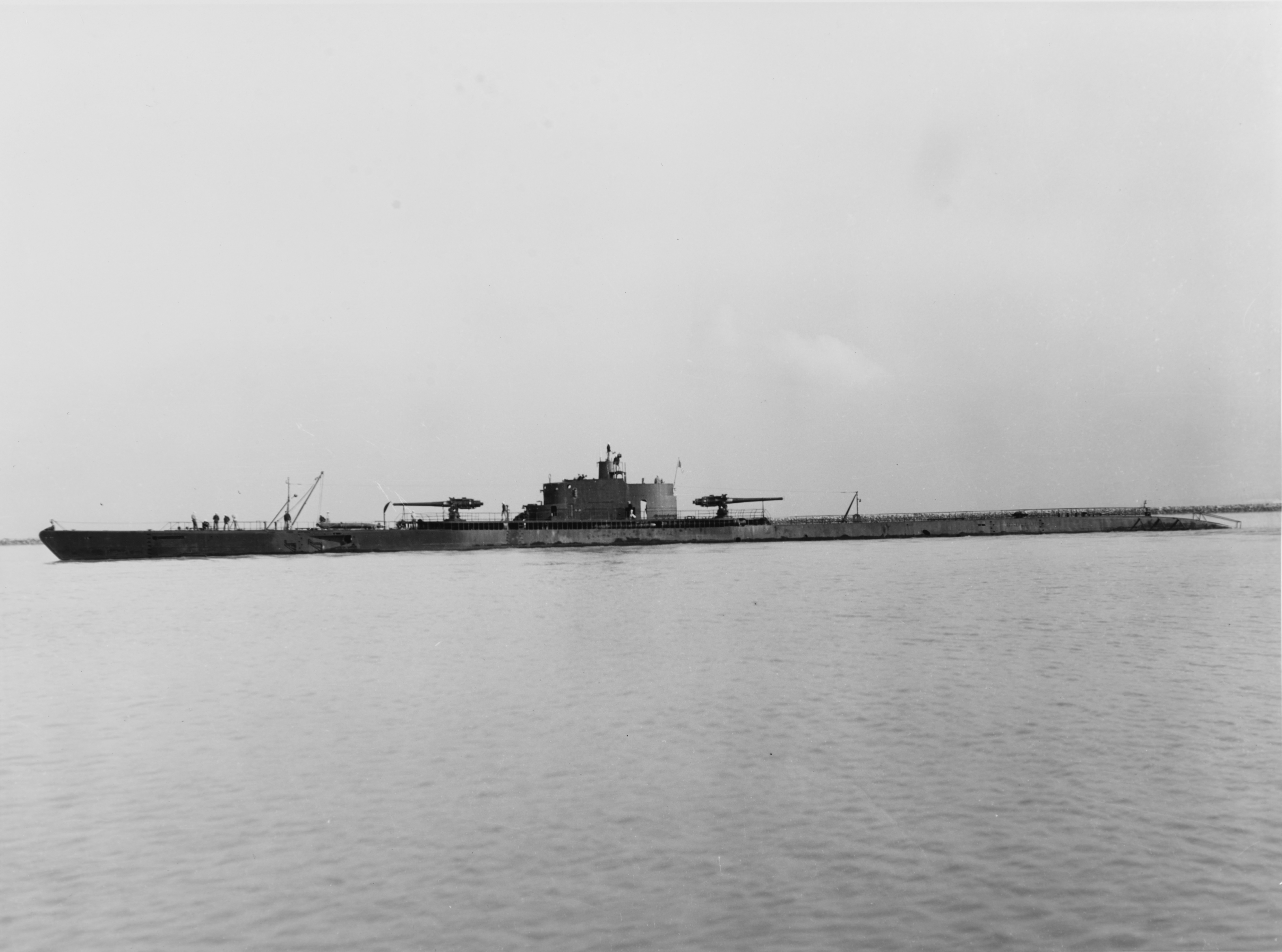 Off the Mare Island Navy Yard, California, 15 April 1942, following modernization. Photograph from the Bureau of Ships Collection in the U.S. National Archives.